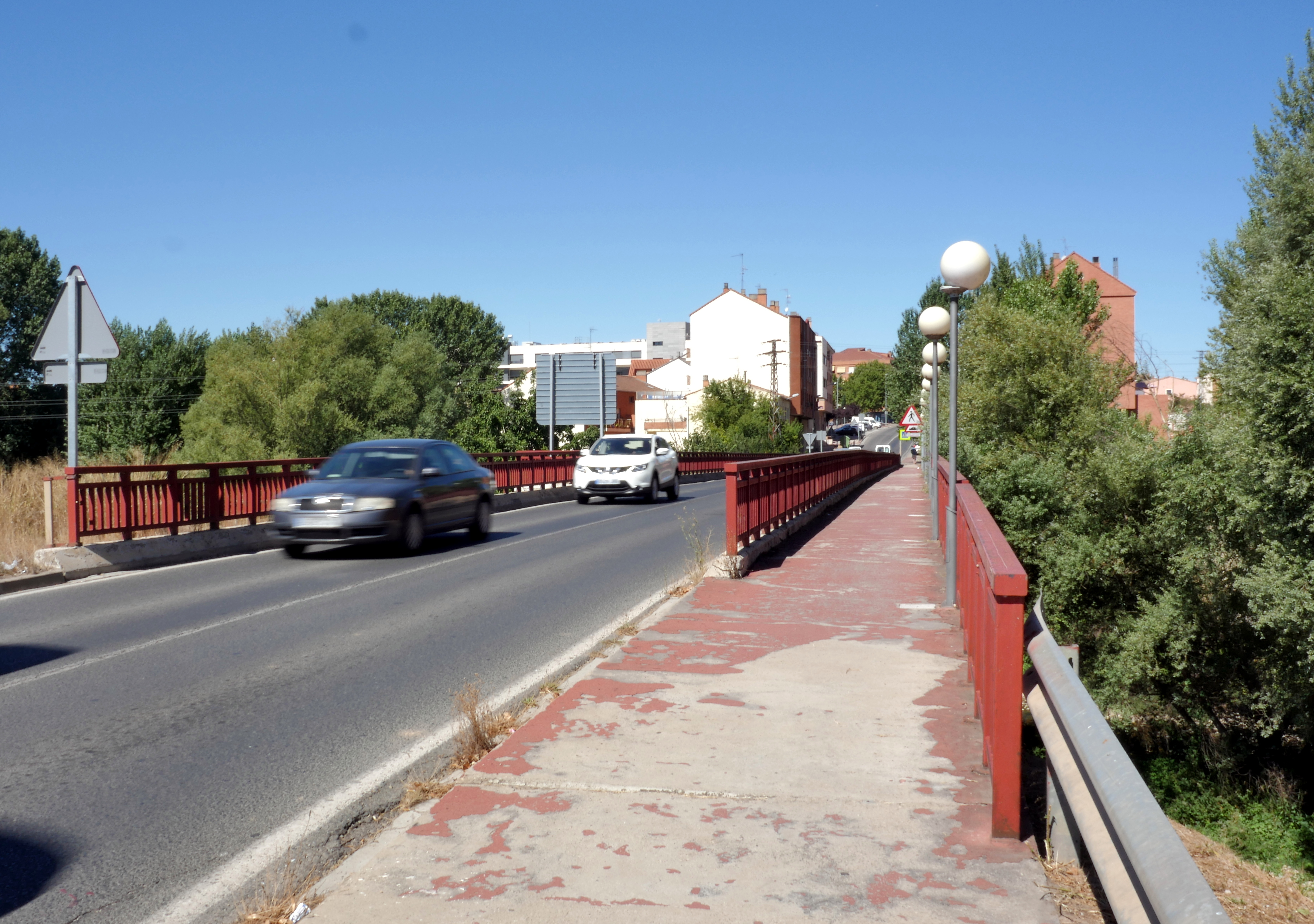 Puente Madre, locality in Villamediana de Iregua in La Rioja, Spain, between the neighbourhood of La Estrella in Logroño and Iregua River (bridge shown here).